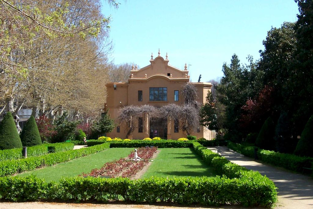 Gardens in the Camps Elisis, in Lleida